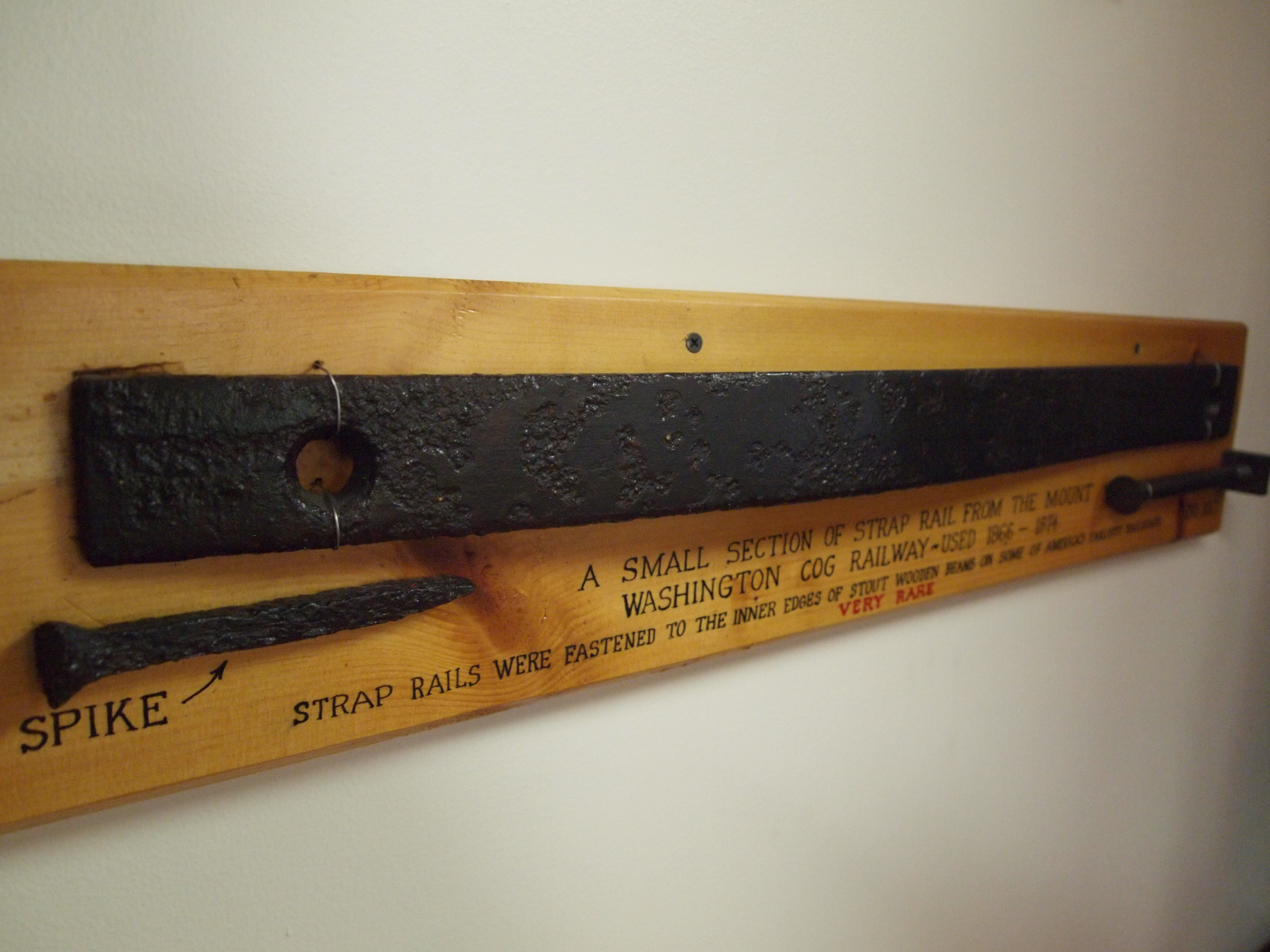 A section of strap rail used in the early Cog Railway at Mt. Washington between 1866 and 1874. Spikes are used to fasten the strap rails to the timbers.